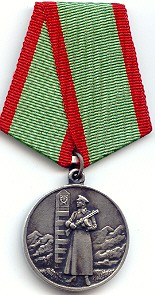 USSR medal "For guard of USSR State borders" From Hebrew Wikipedia: [1]